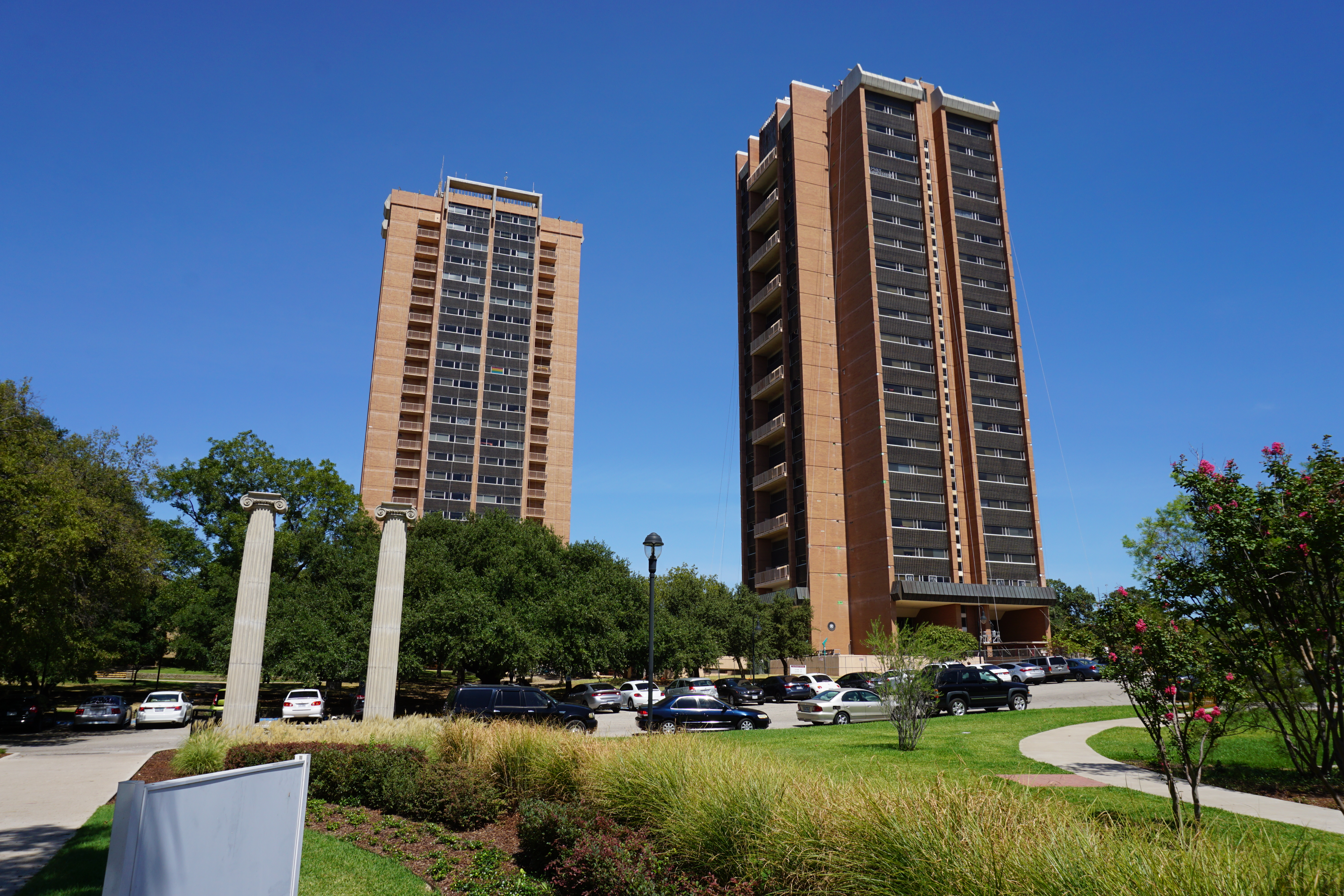 The John A. Guinn Residence Hall and the Nelda C. Stark Residence Hall on the campus of Texas Woman's University in Denton, Texas (United States).